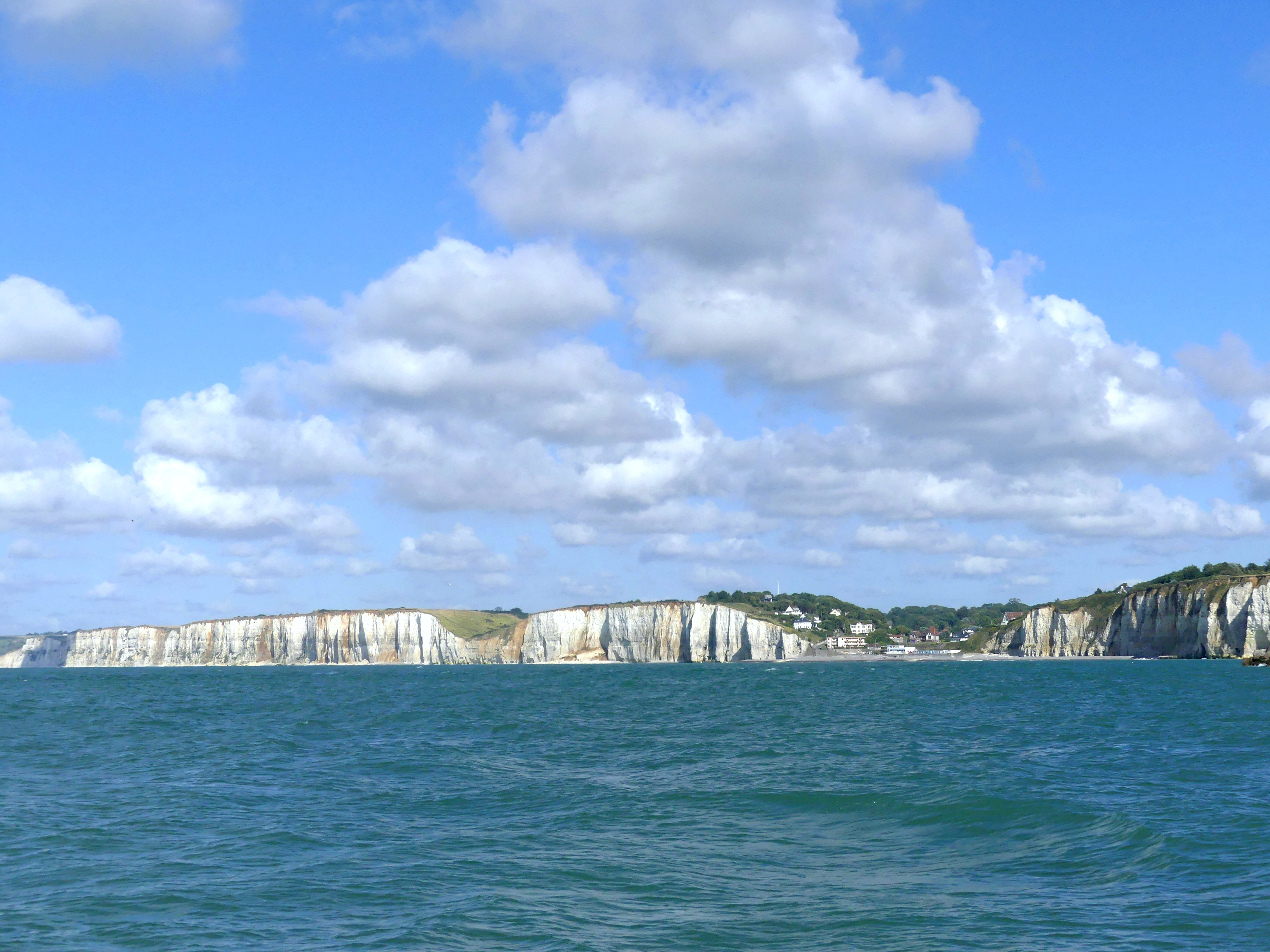 Sight, from the open sea, of the cliffs between Dieppe (hidden on the right) and Penly (on the left at the background), in Normandy, France.